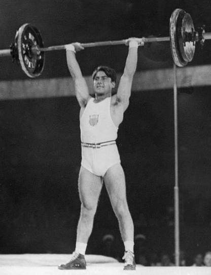 1936 Press Photo Athlete Anthony Terlazzo Wins Weight Lifting at Olympics